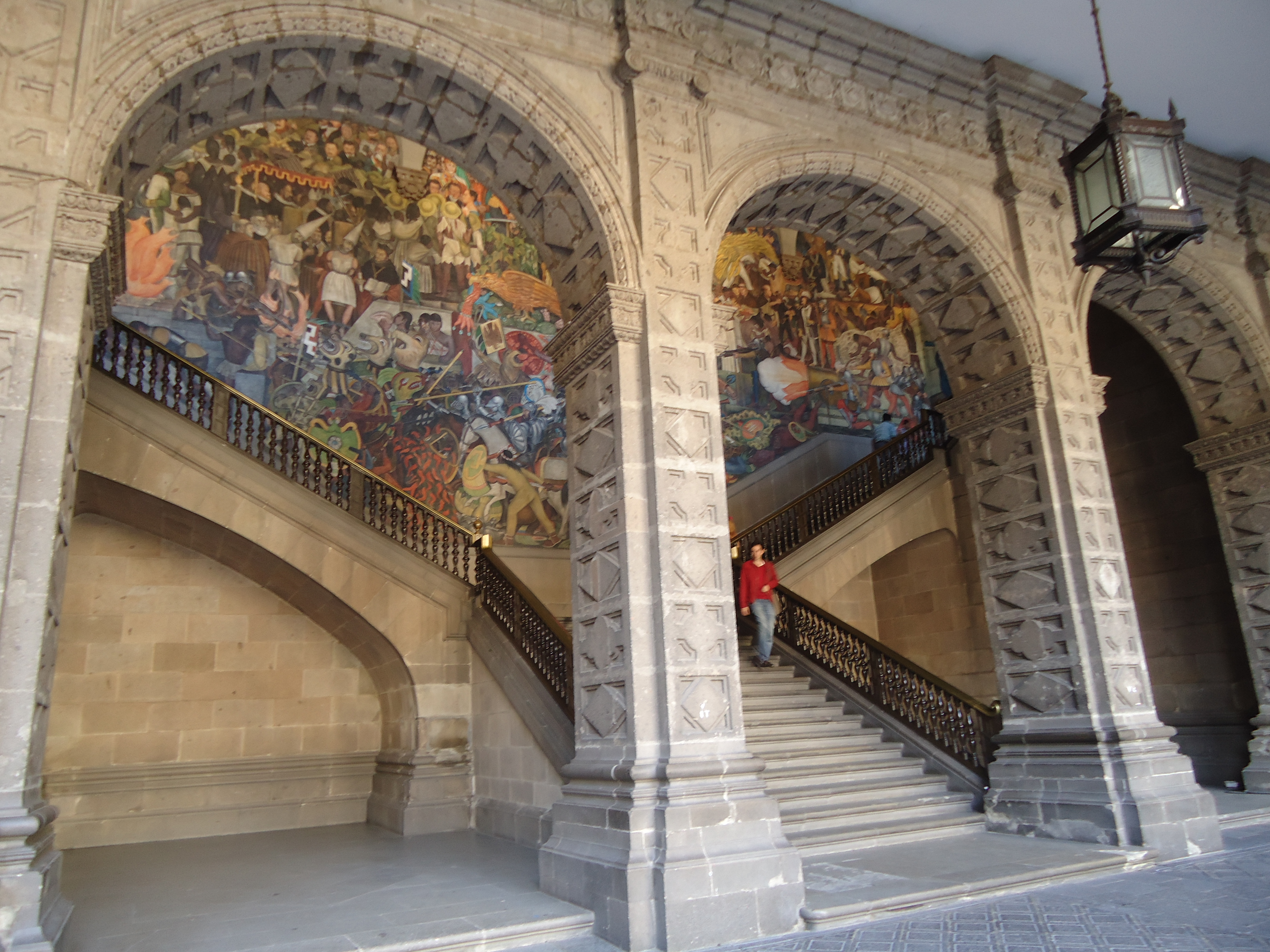 View on the staircase with the Mural by Diego Rivera in the Palacio Nacional Mexico City.